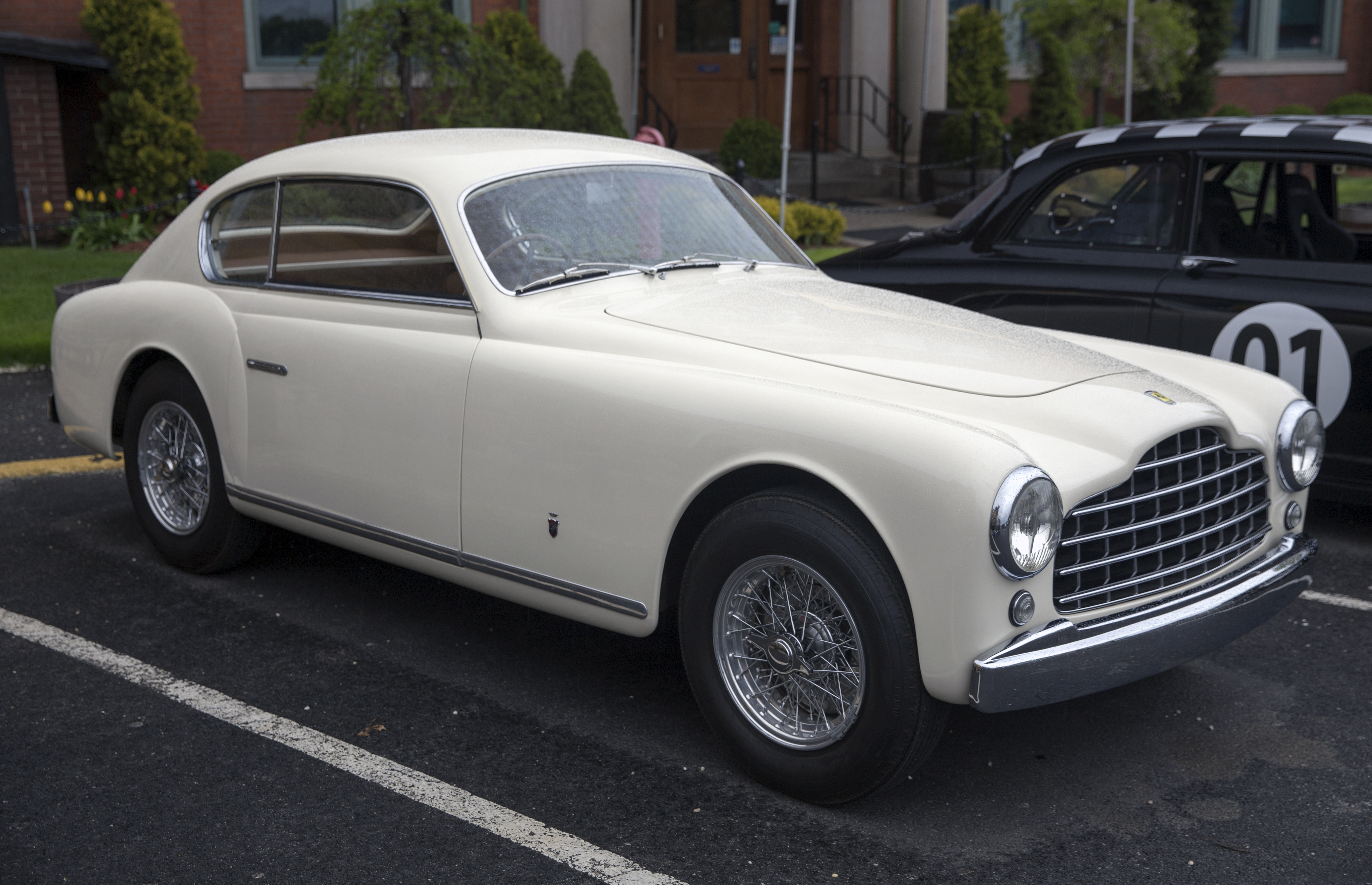 Luigi Villoresi's 1951 Ferrari 195 Inter at a "Pints & Pistons" event in Stratford, CT. He didn't like the 212, so he had a 166 engine bored out to 2.6 liters. It has a special three-Weber setup and various other engine touches for a total of 160hp. Bodied by Ghia.